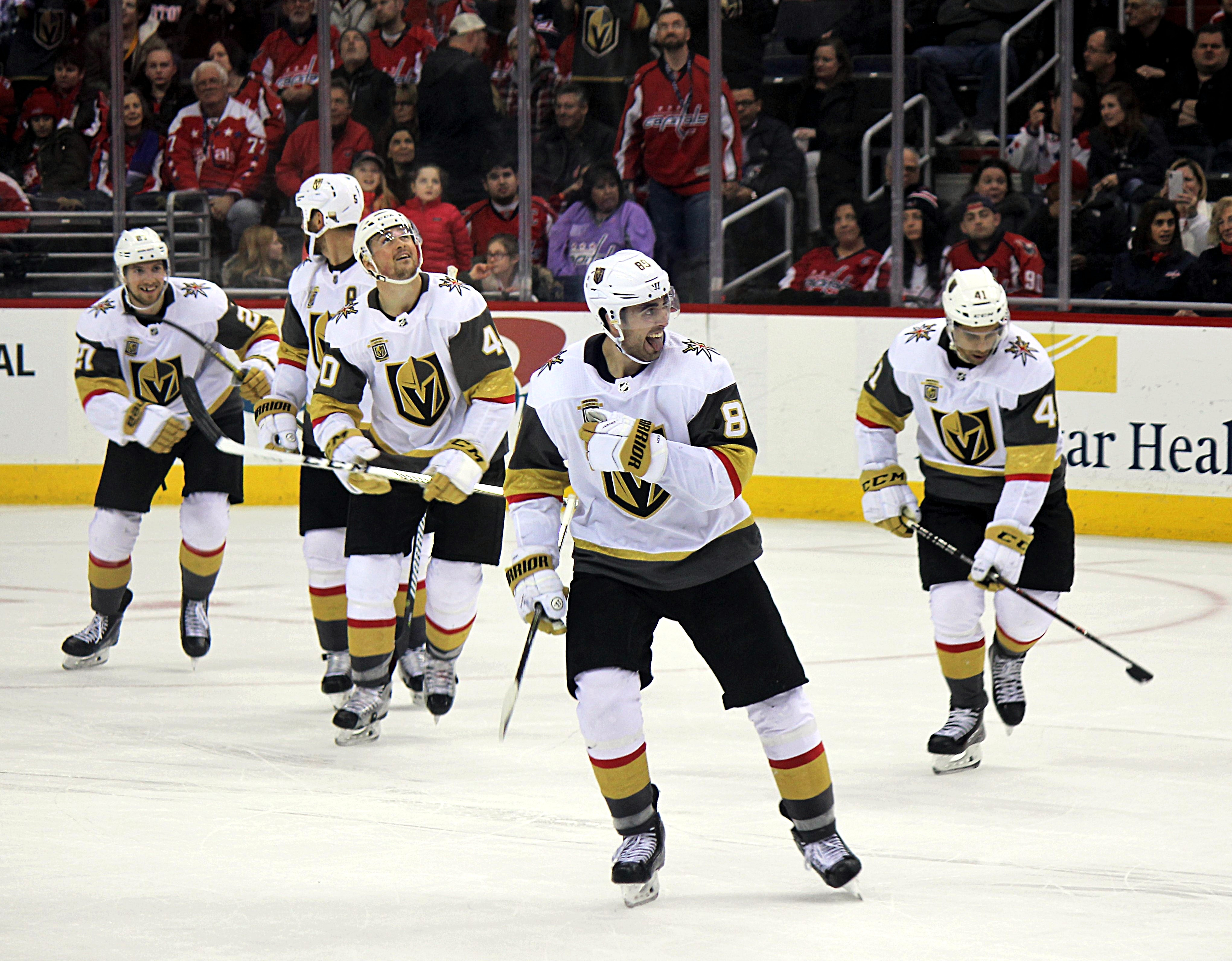 Vegas Golden Knights forward Alex Tuch during a game against the Washington Capitals, February 4, 2018, at Capital One Arena in Washington, D.C.